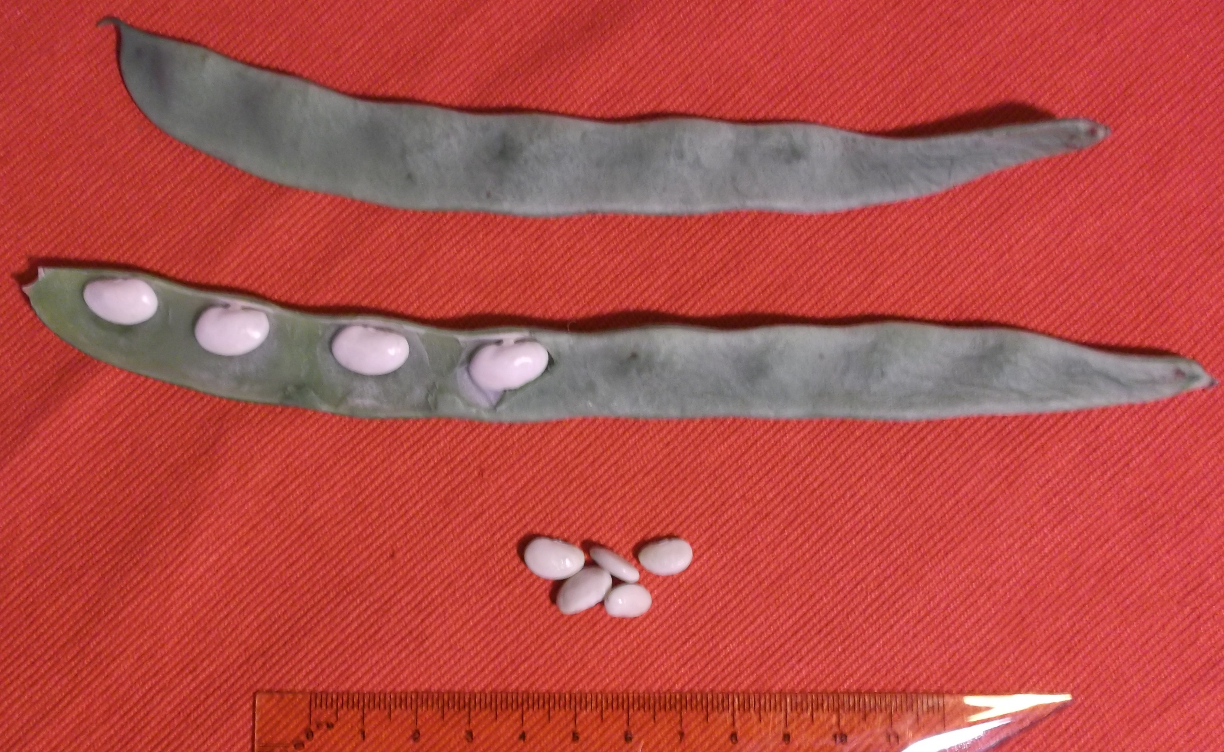 Raw flat beans showing the kernels